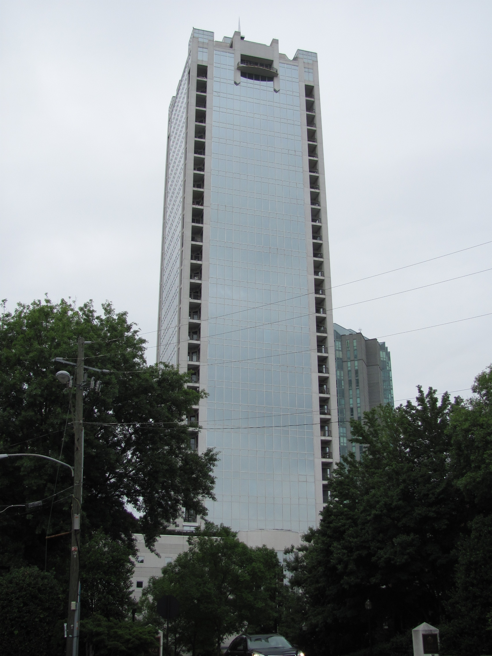 2828 Peachtree, Garden Hills, Atlanta Georgia, May 2010